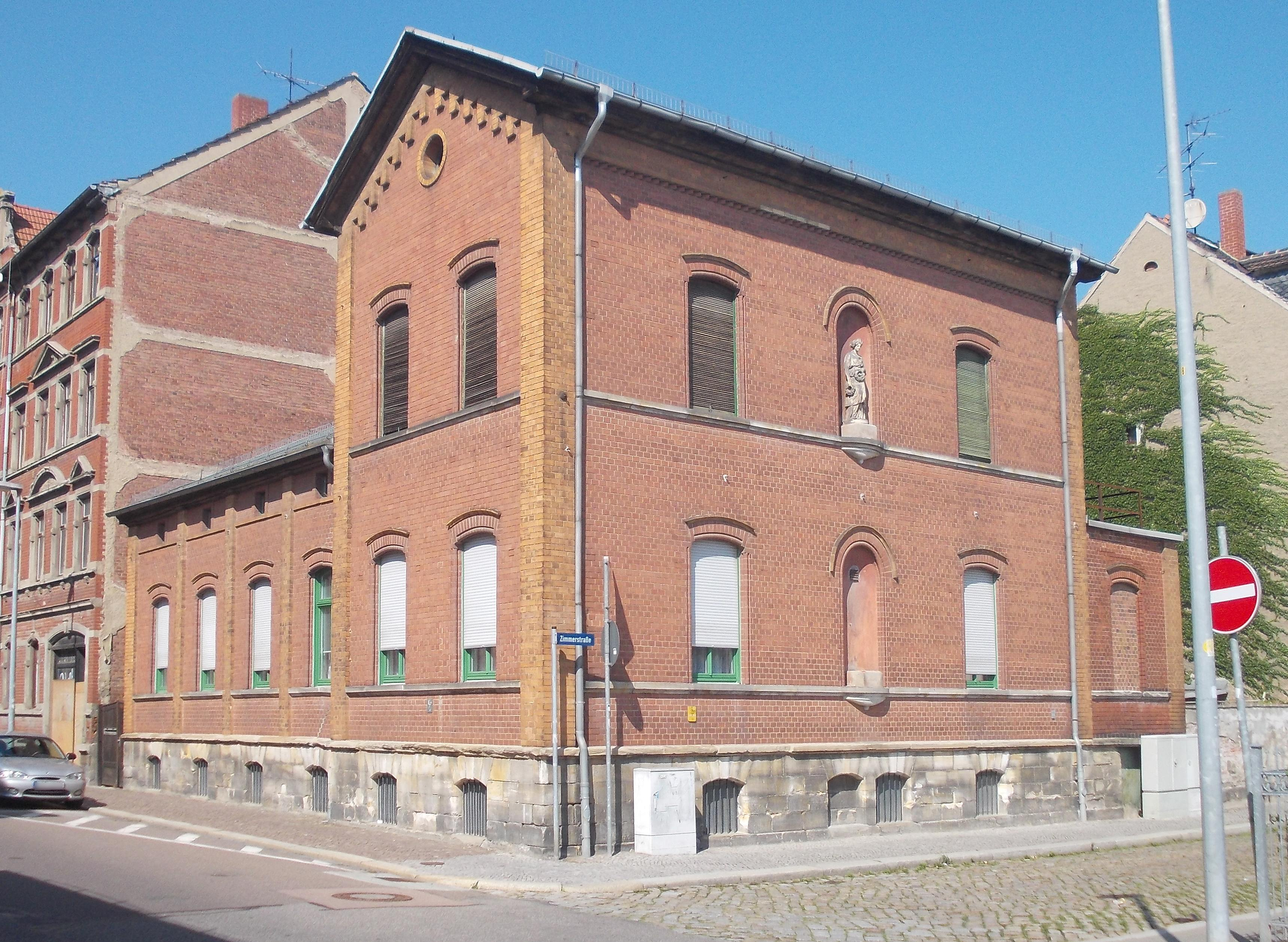 No. 33, Beuditzstrasse in Weissenfels (district: Burgenlandkreis, Saxony-Anhalt)